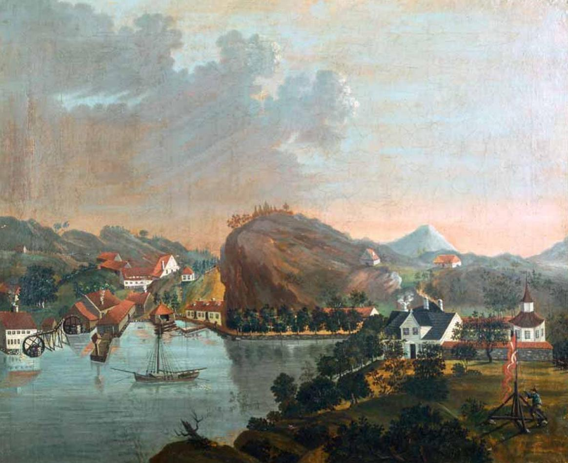 Prospect of Alvøen by Johan Christopher Johnsen, 1808